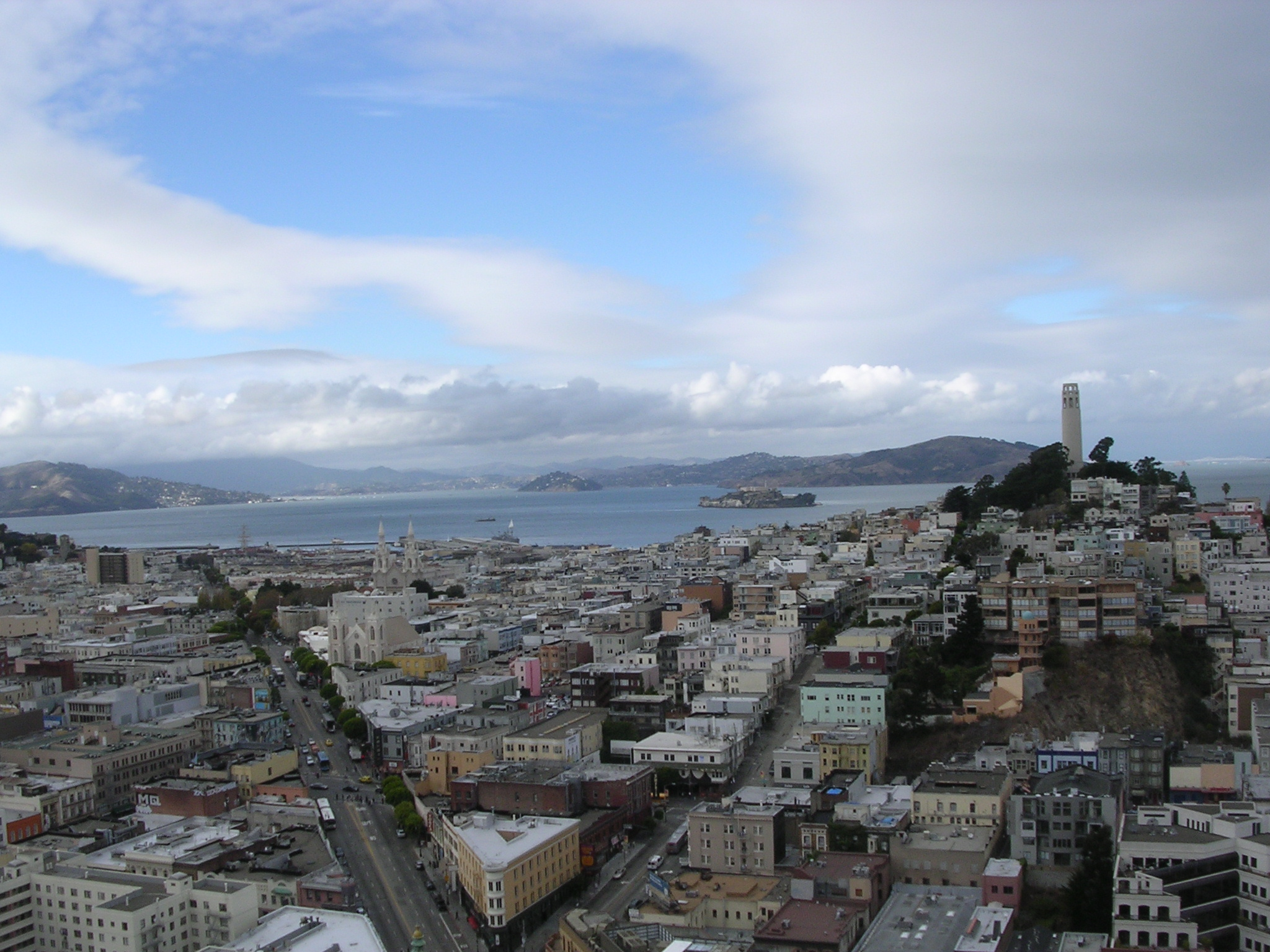 View of Coit Tower, Alcatraz and Marin from the Transamerica Pyramid in San Francisco. (Photo copied from English Wikipedia).